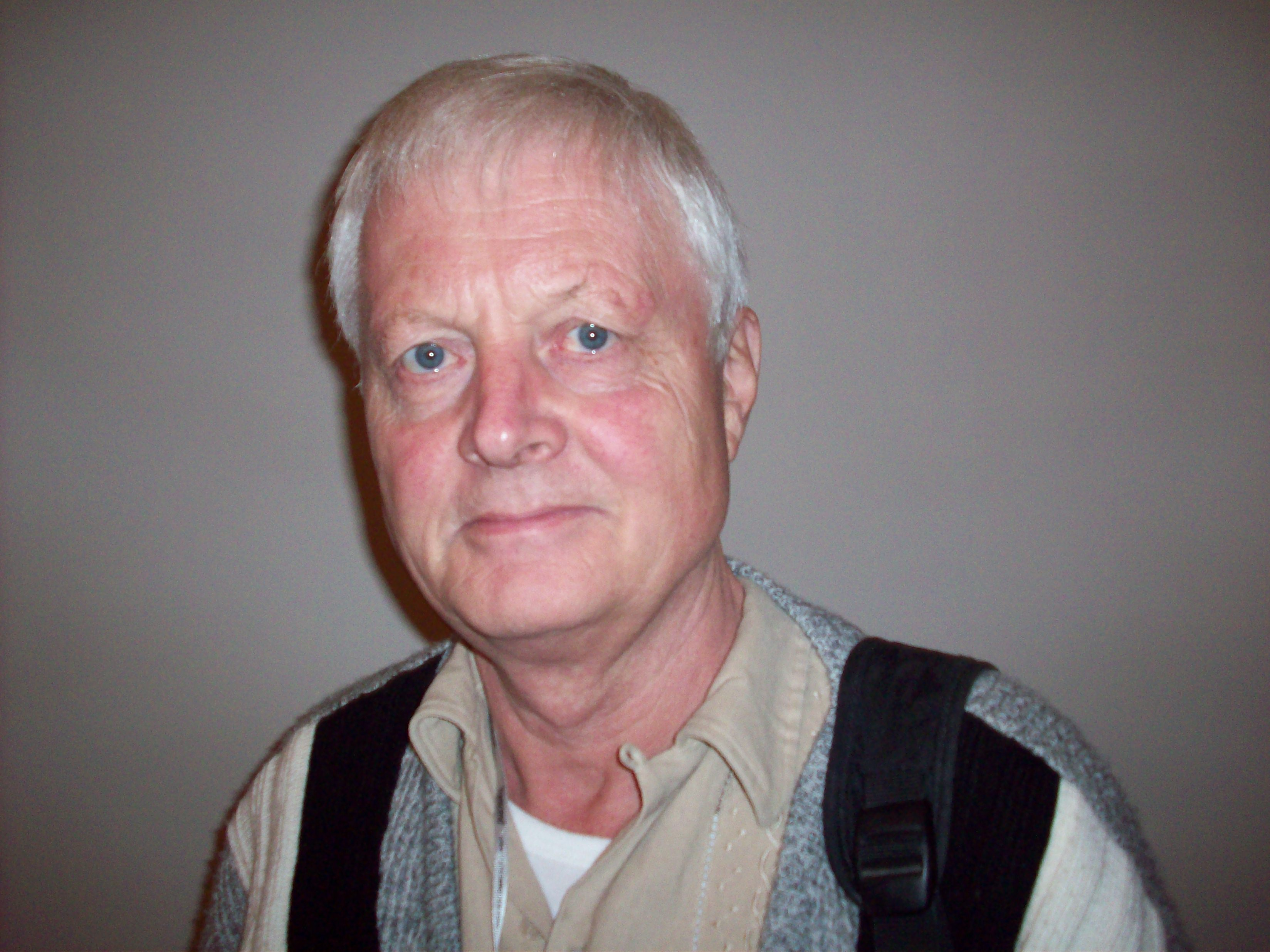 Famous French esperantist living in Cuba.